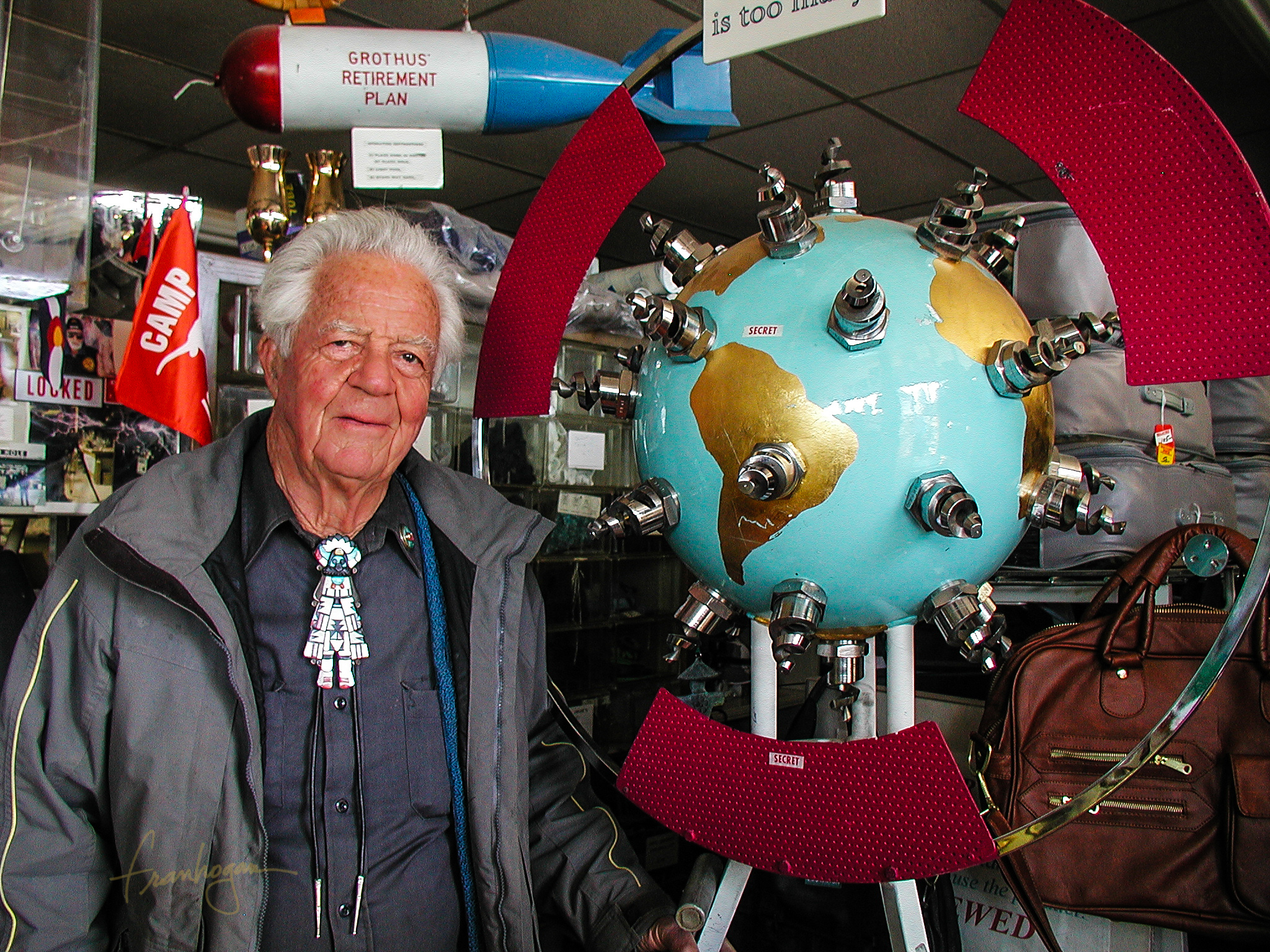 Ed Grothus at The Black Hole, Los Alamos, New Mexico